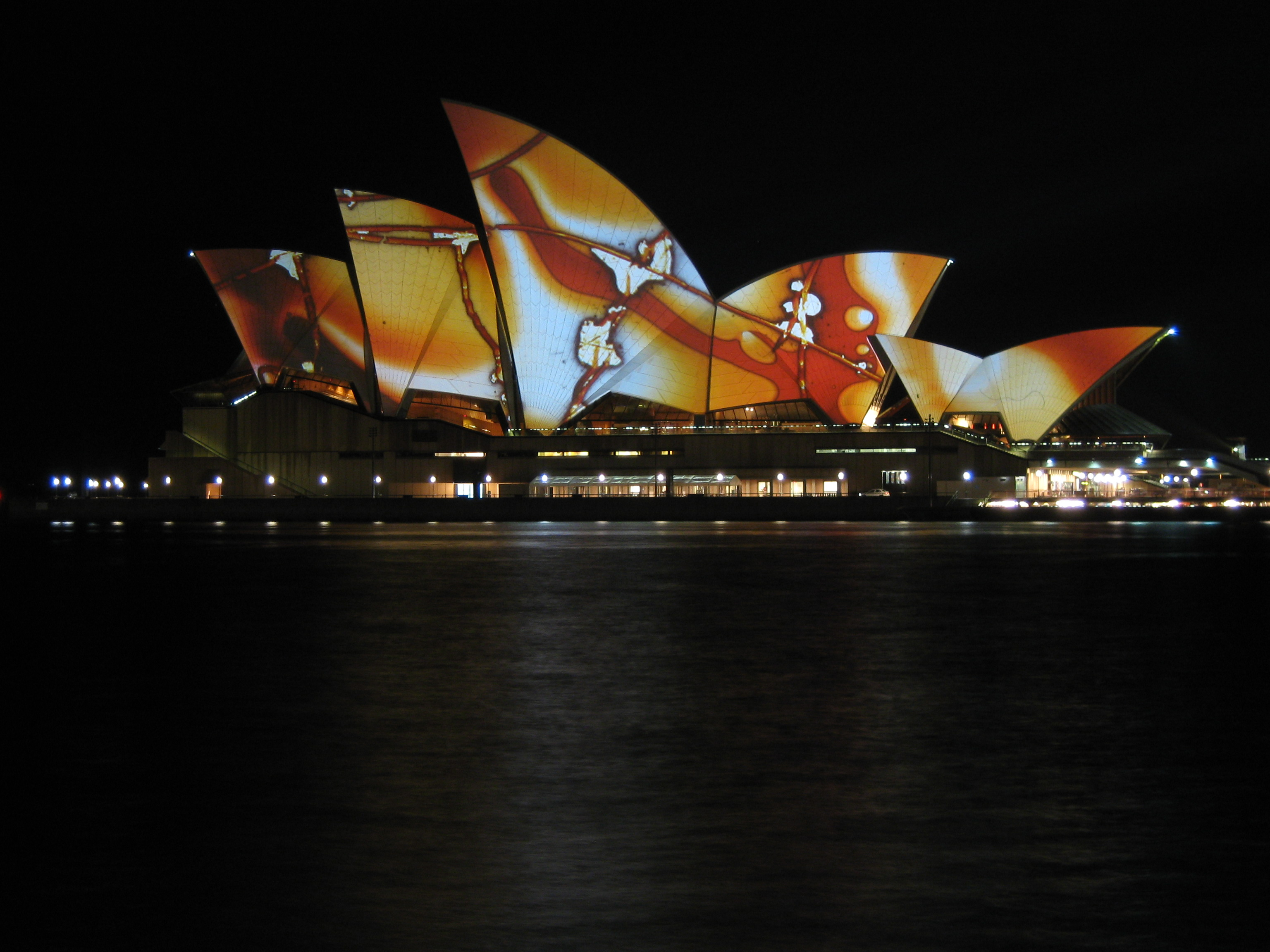 Opera House Sydney while it was lighted for 3 Weeks by Brian Eno. See Google News for more information.